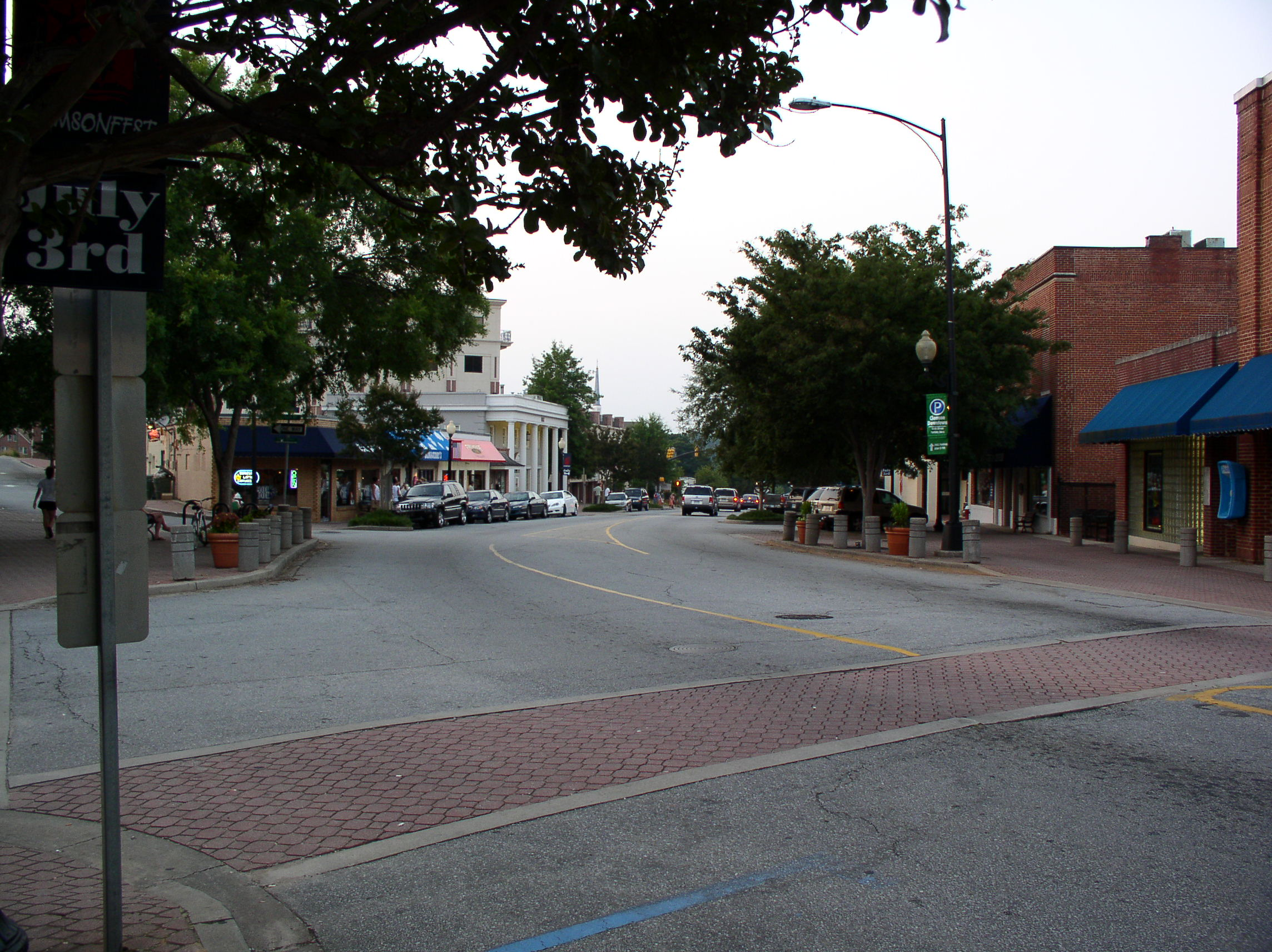 Downtown Clemson, South Carolina (College Ave.)